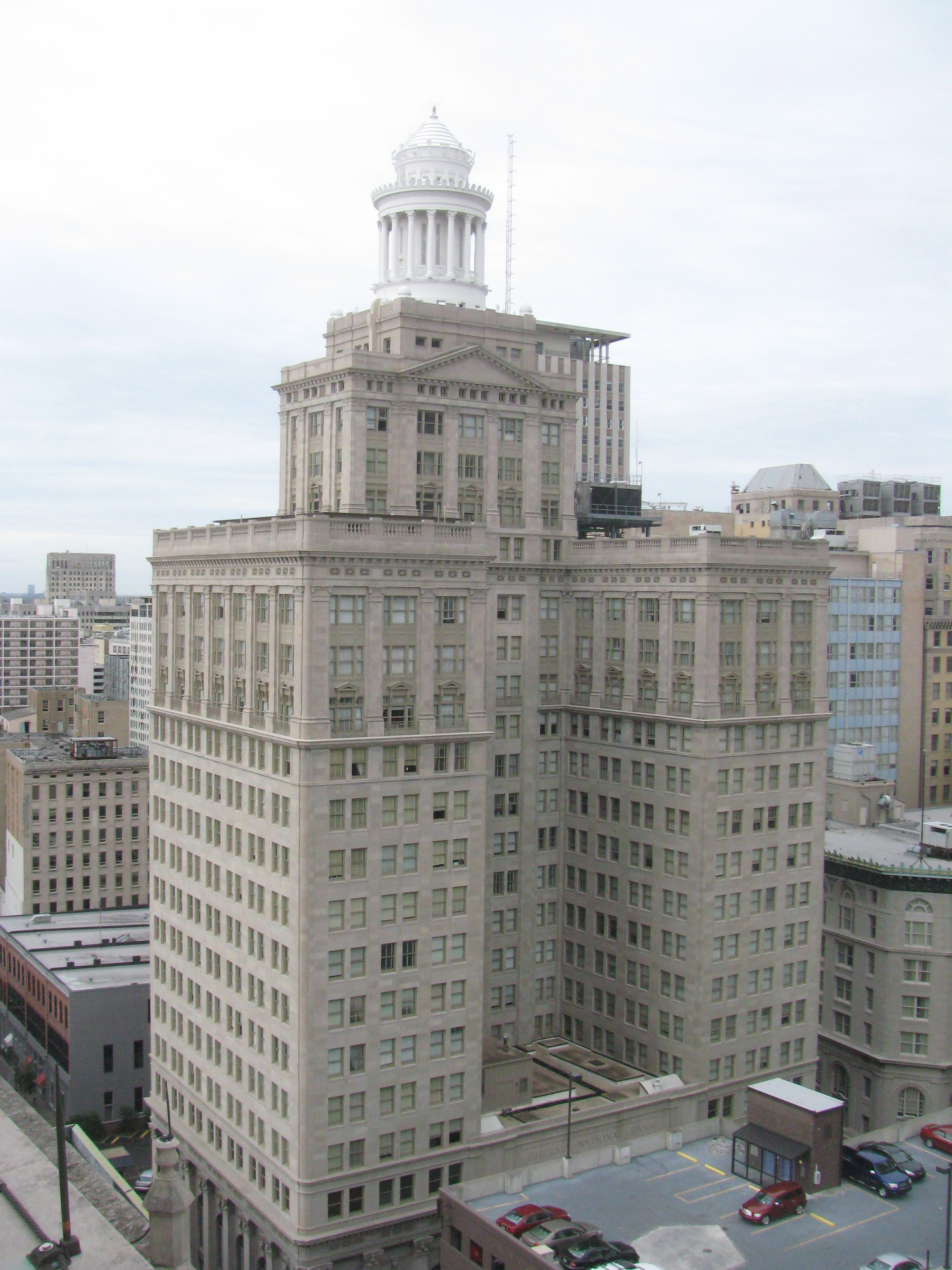 Hibernia Bank Building seen from Hilton New Orleans